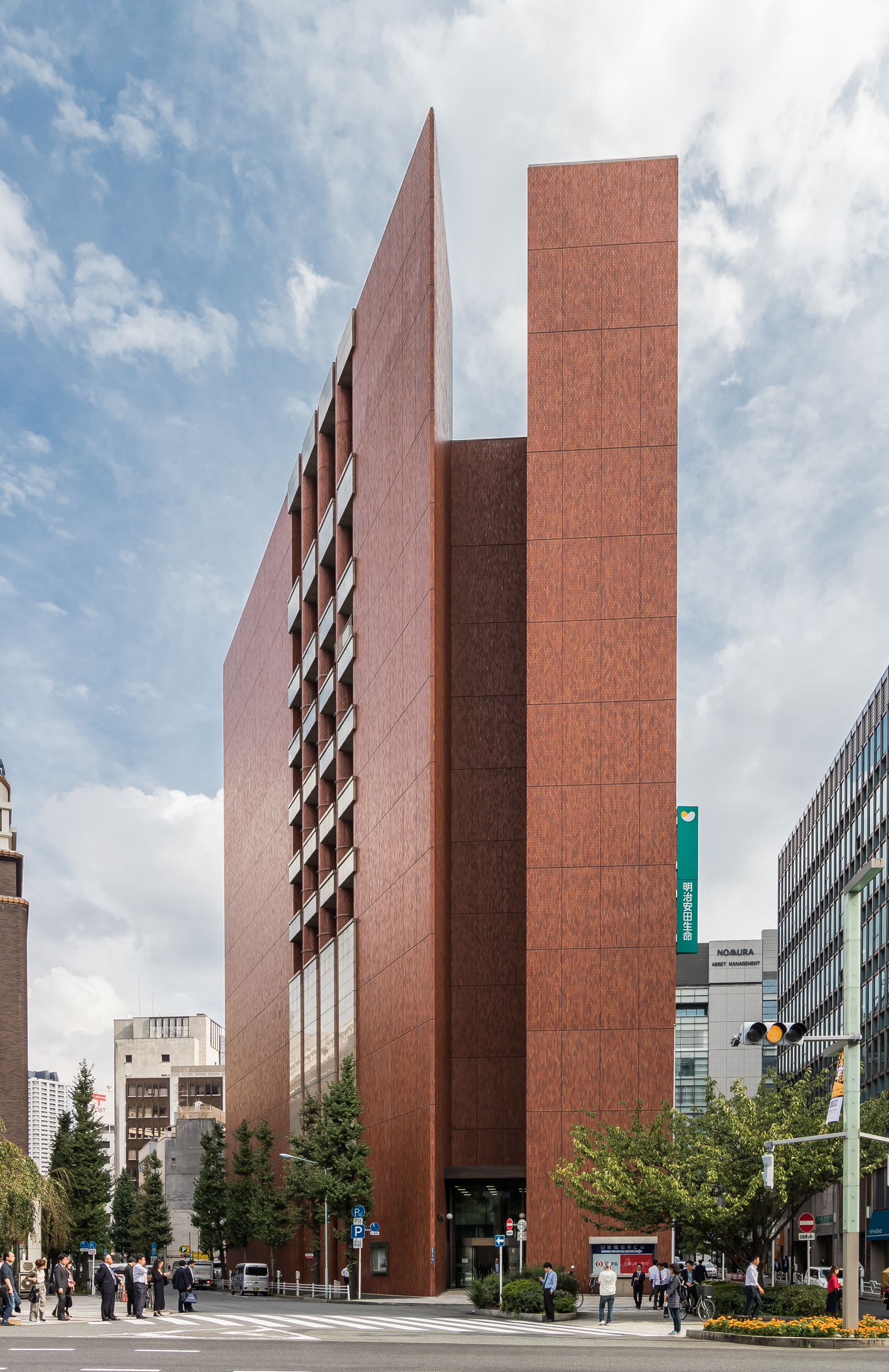 Nihonbashi Miyuki Building